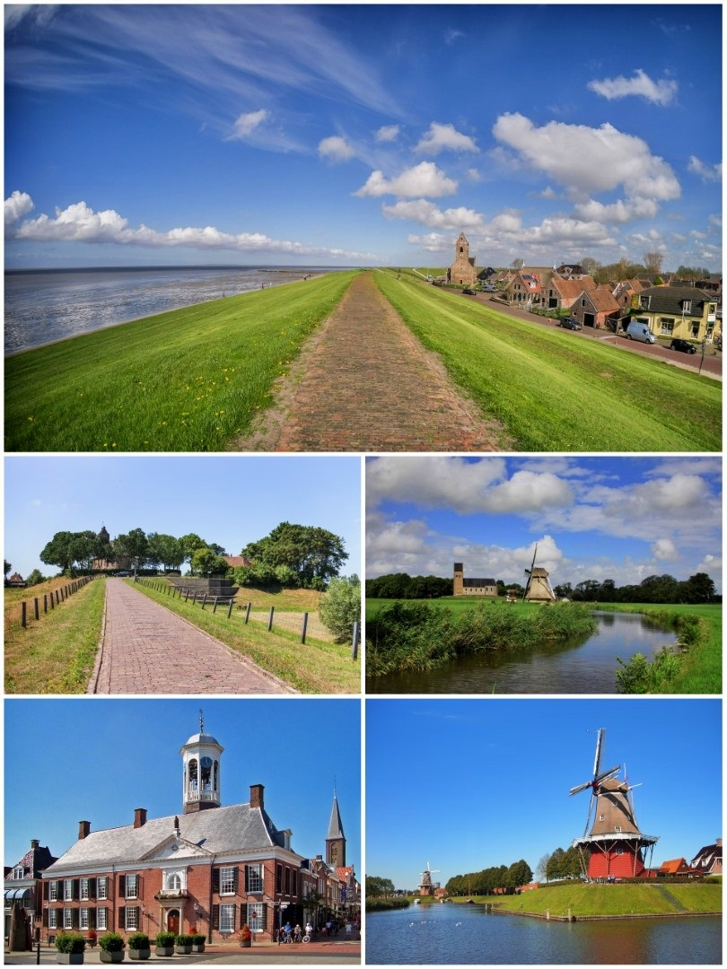 Photomontage to Noardeast-Fryslân page from photos